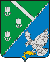 Dolinsky rayon (Sakhalin oblast), coat of arms